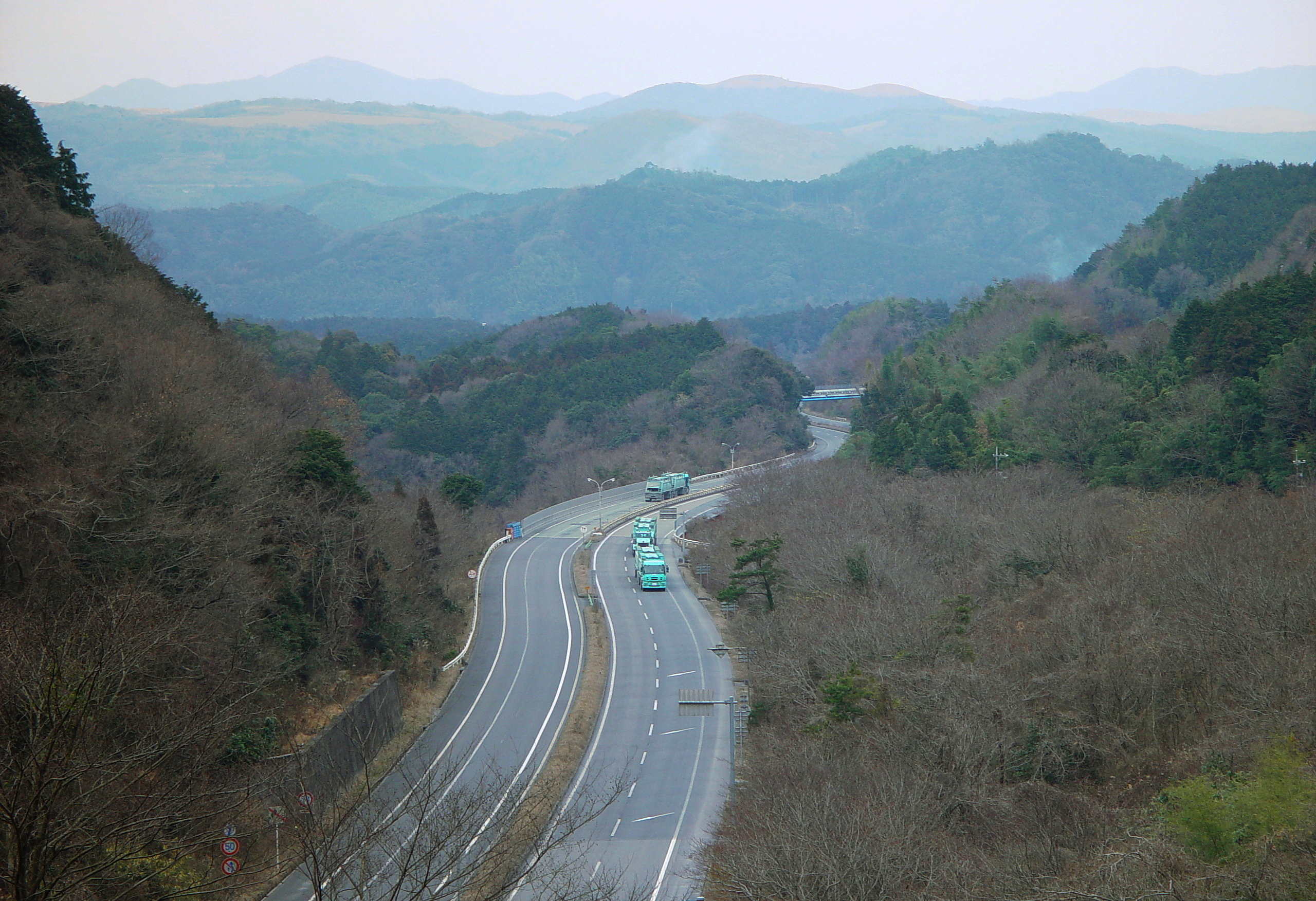 Road for exclusive use of Ube Industries, Ltd. 宇部興産専用道路